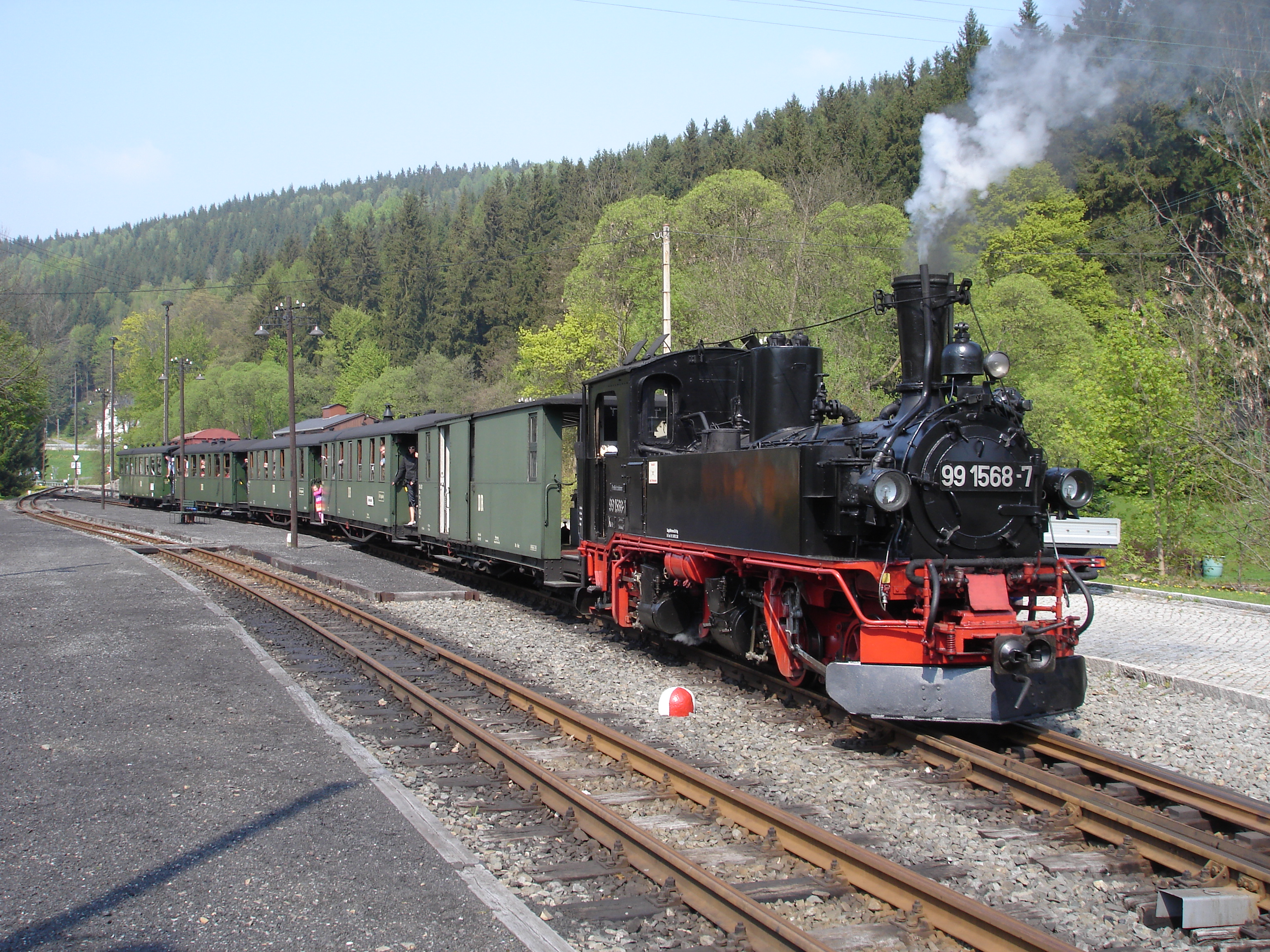 train of Preßnitztalbahn in Schmalzgrube